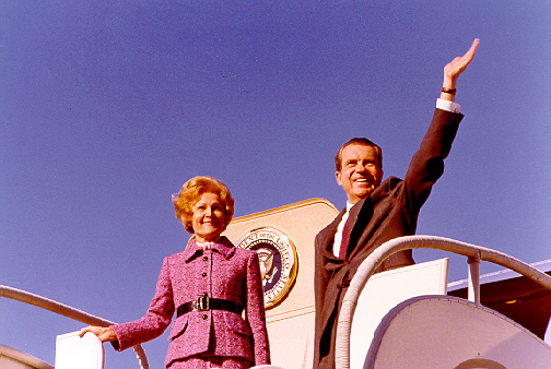 Nixon and Pat emerge from his plane, the "Spirit of '76," while campaigning, 1972.